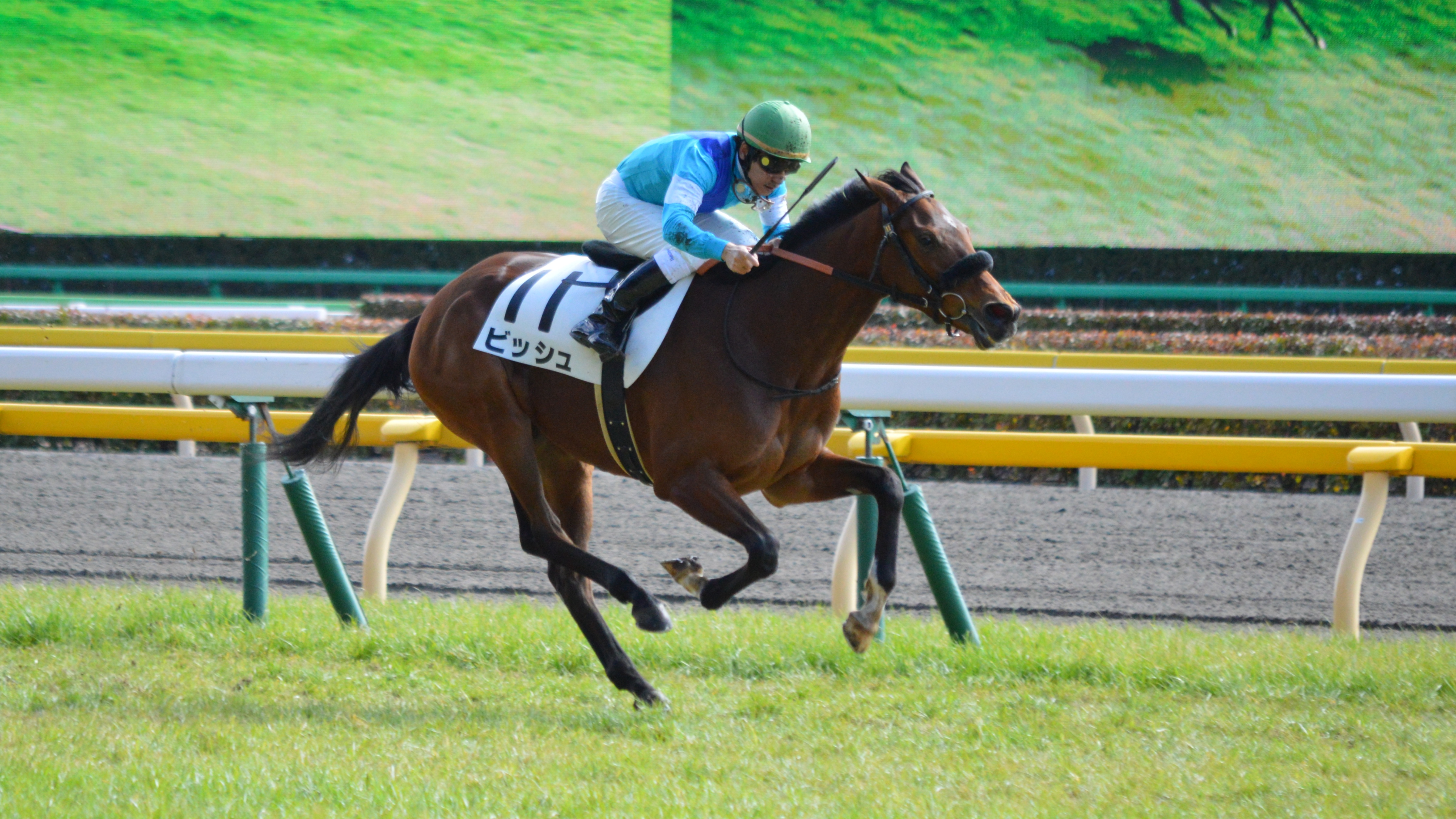 Japanese race horse Biche at Tokyo racecourse.